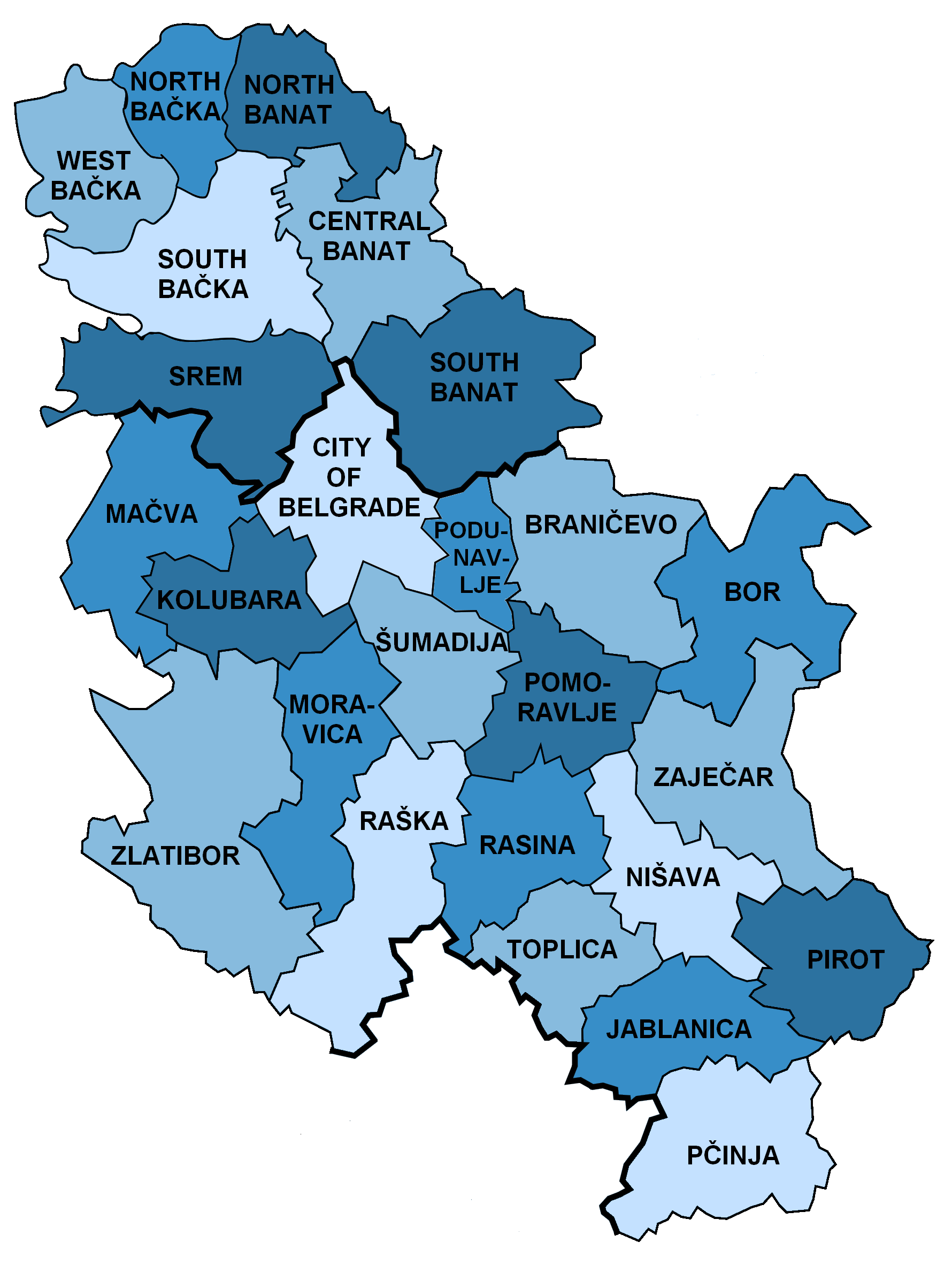 Districts of Serbia (without Kosovo) in english